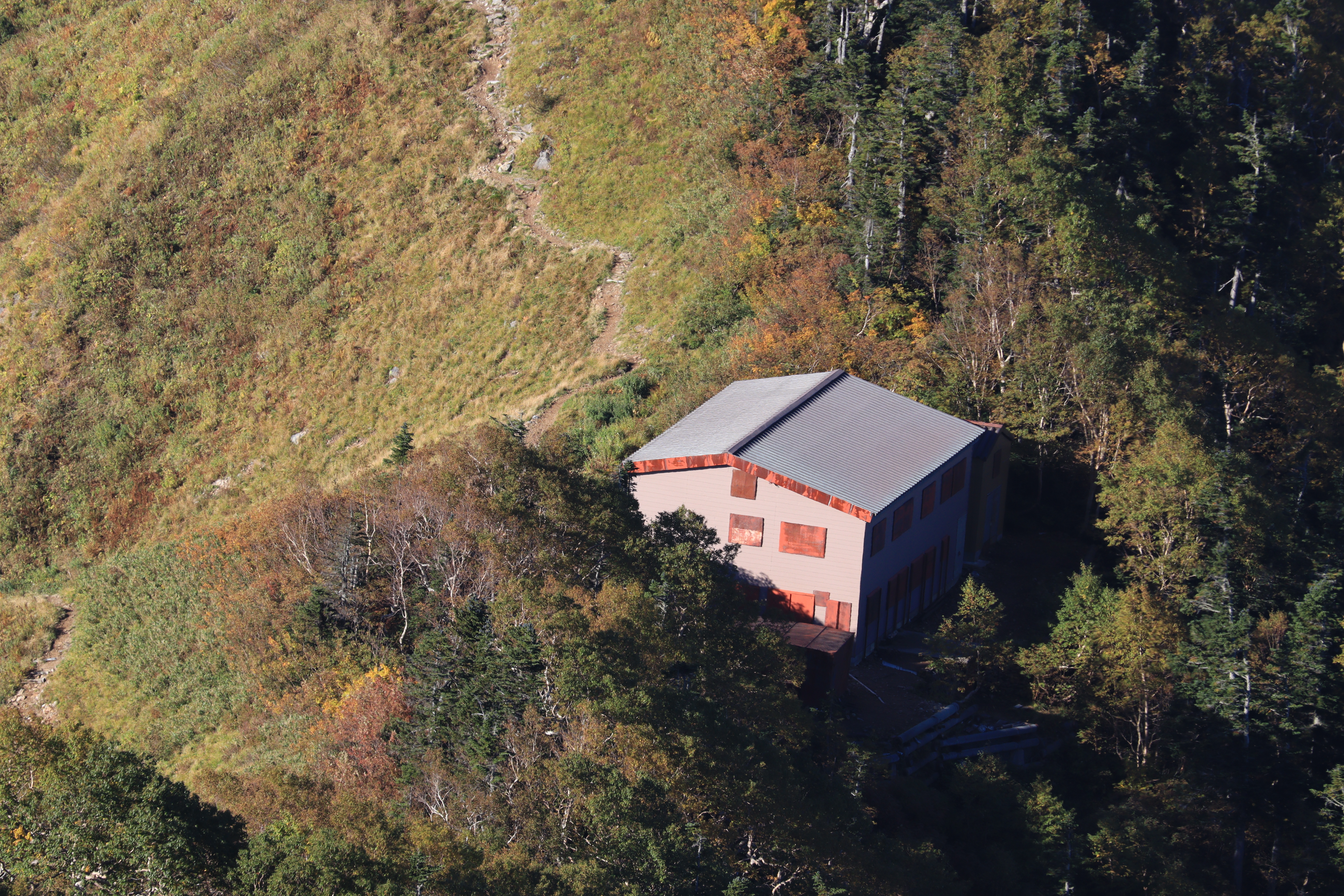 Shinkoshi Sanso on Shinkoshi Pass, Ushirotateyama Mountains (Hida Mountains), Tateyama Town, Toyama Prefecture and Ōmachi, Nagano Prefecture, Japan.